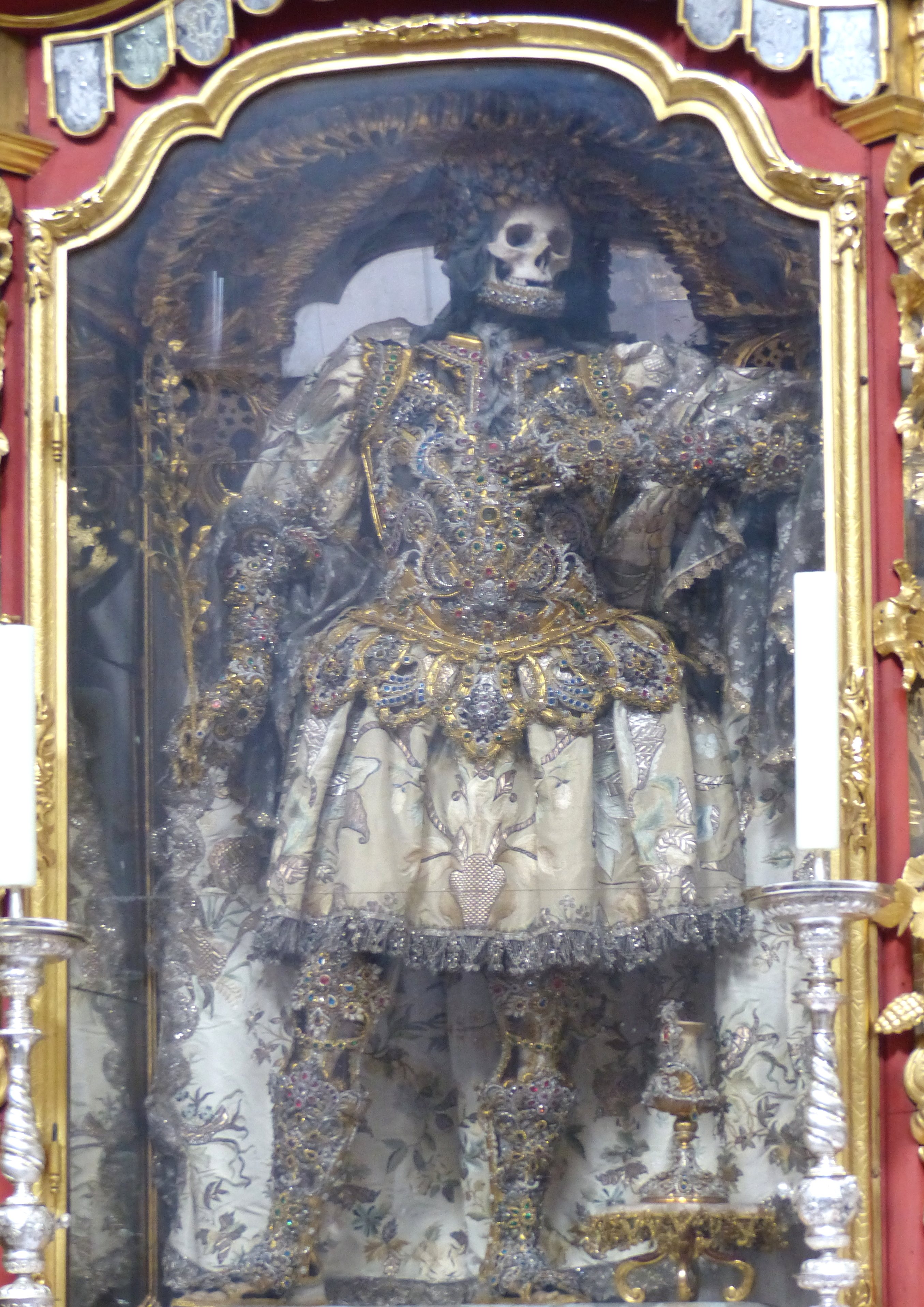 Waldsassen ( Upper Palatinate ). Abbey church: Catacomb saint - Saint Gratian.This is a photograph of an architectural monument.